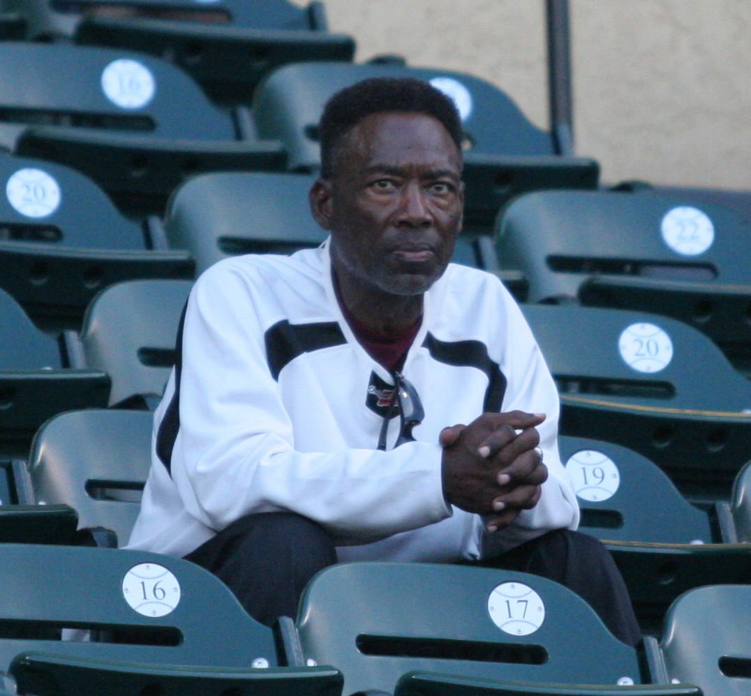 Chet Lemon watching a ballgame in 2012